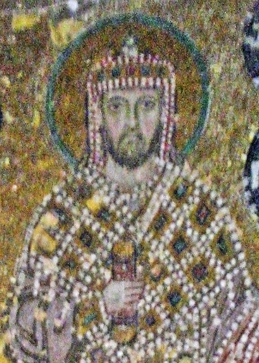 Alexander of Constantinople.